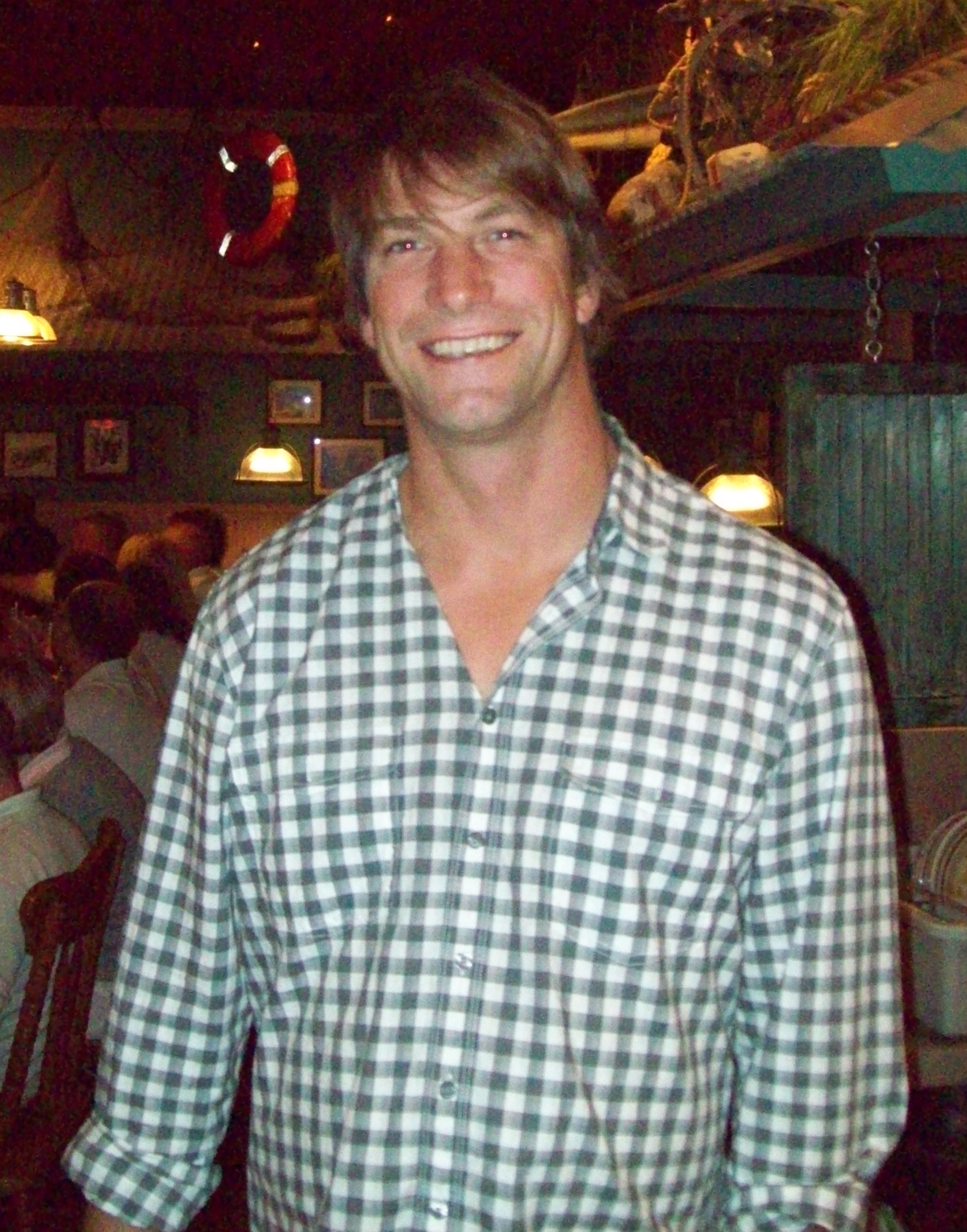 Picture of Charlie O'Connell taken at Preston's Seafood Buffet in Myrtle Beach, SC on 10-17-2009.